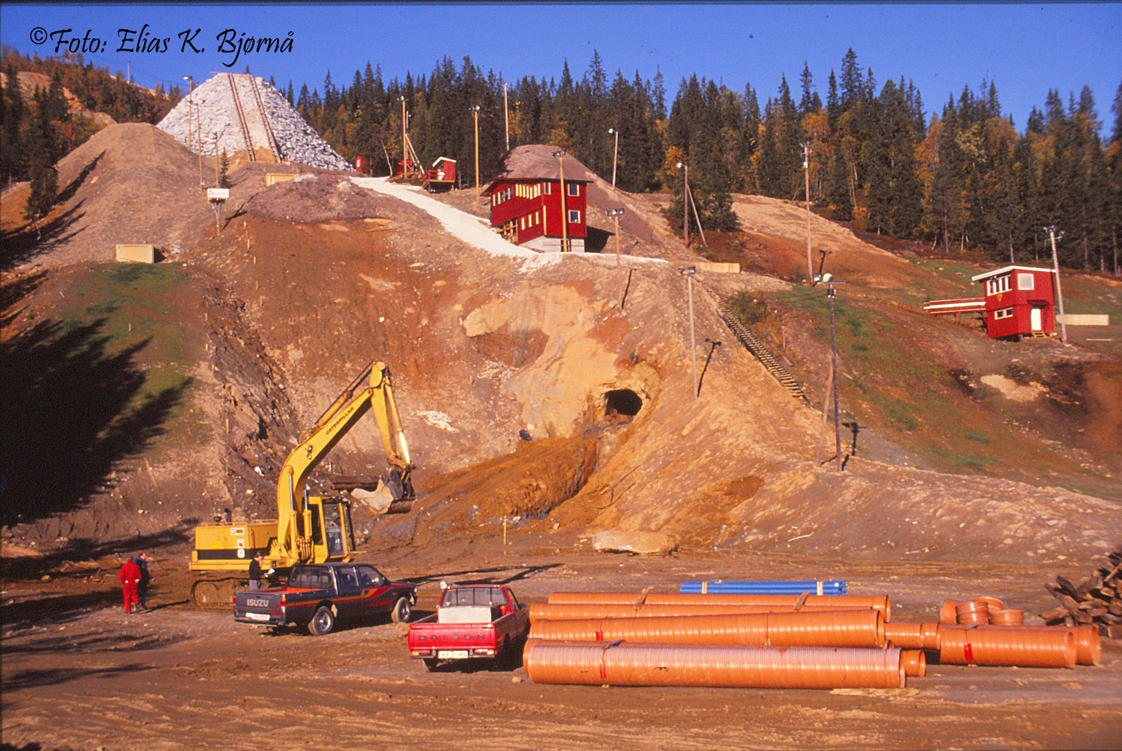 Anleggsarbeid 1990.Foto Elias K. Bjørnå